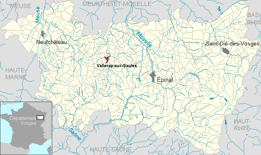 Valleroy-aux-Saules in the department of Vosges, Lorraine, France